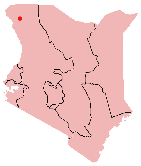 Kakuma, Kenya Location Map; created with the GIMP. Made by User:Acntx.